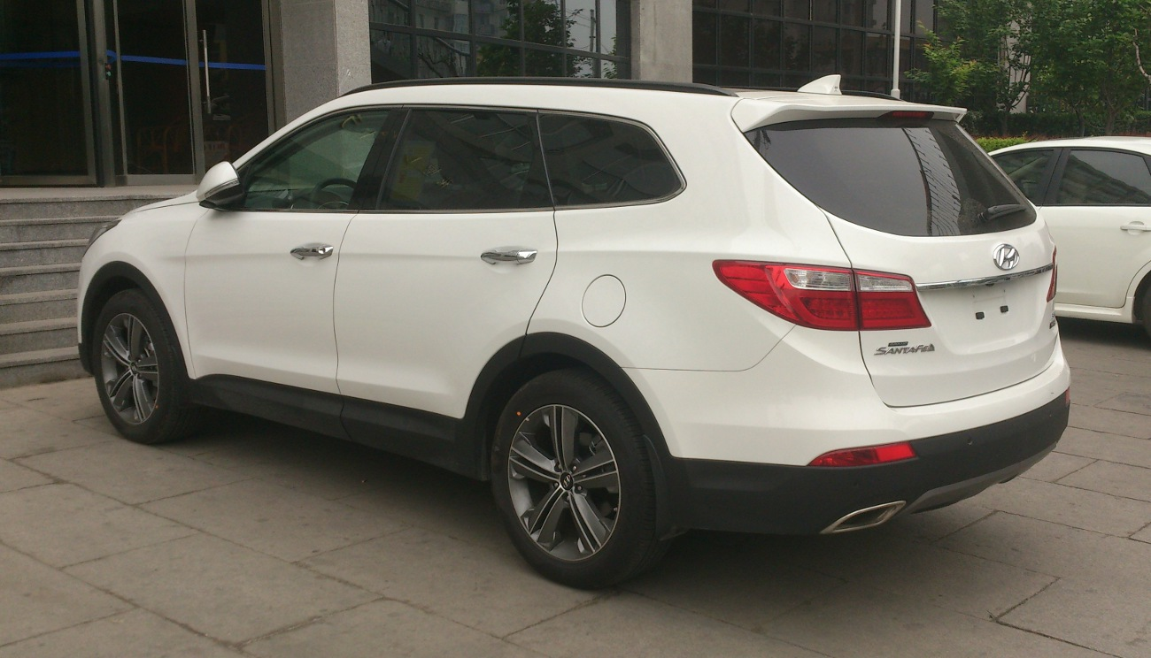 Hyundai Grand Santa Fe photographed in Beijing, China.